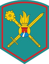 Sleeve patch of the Russian Ground Forces' 49th Combined Arms Army